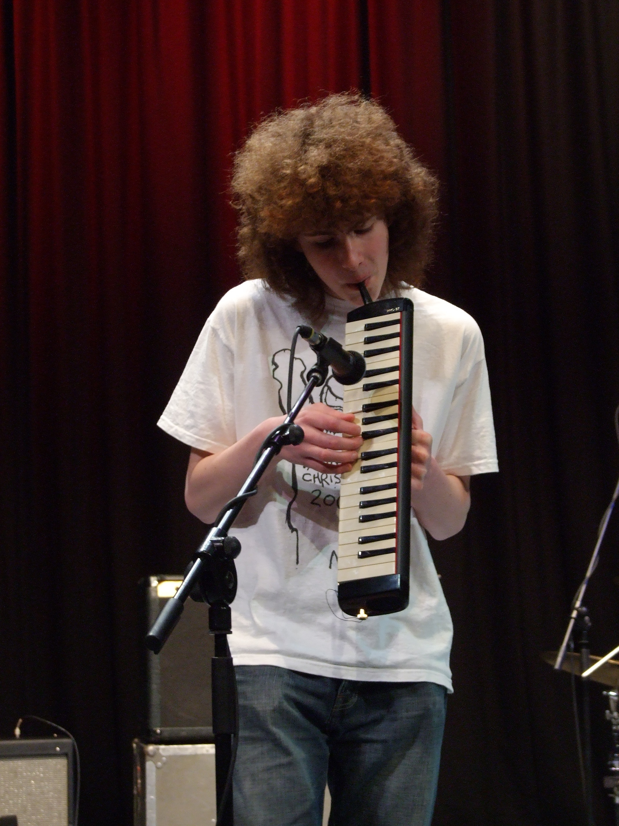 Joel of Inconsiderate Parking (with Melodica)